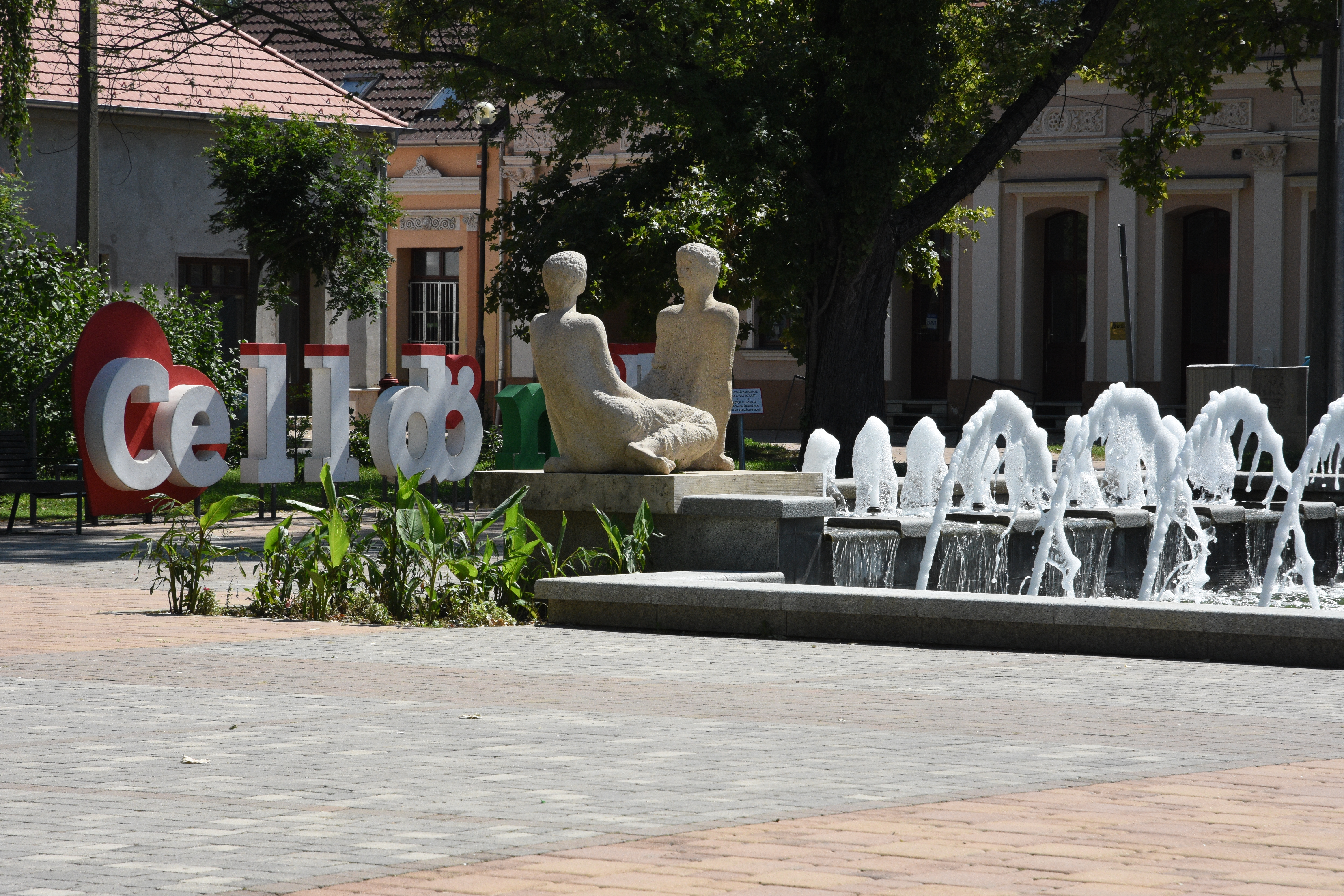 Celldömölk